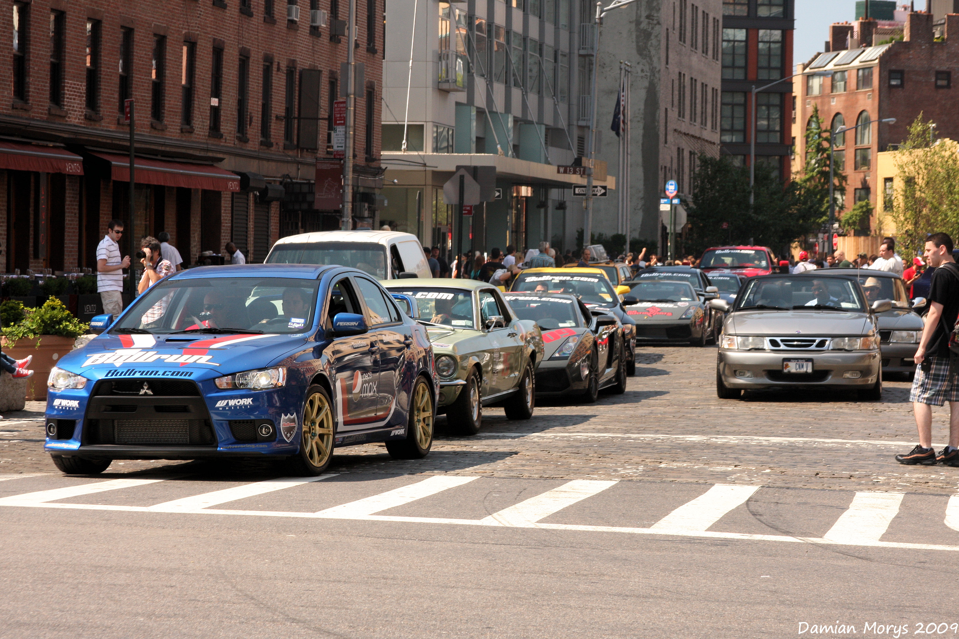 Ready to head out!